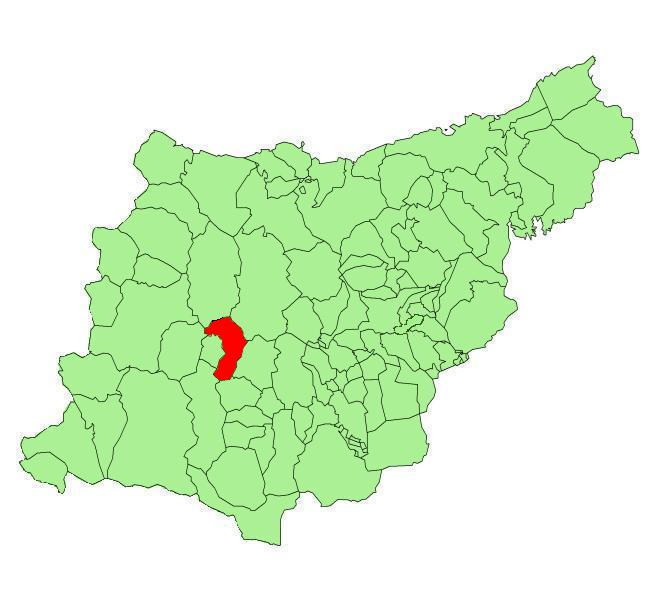 Zumarraga municipality in the province of Guipuzcoa